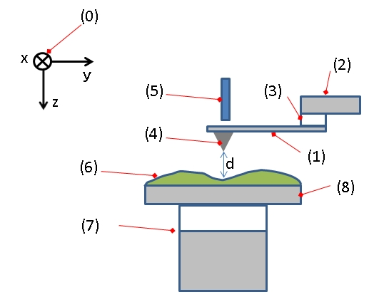 Typical configuration of AFM. As shown in the figure above, AFM typically consists of the following features.; Cantilever (1) : Small spring-like cantilever (1) is supported on the support (2) by means of a piezoelectric element (3) so as to oscillate the cantilever (1) at its eigen frequency ; Sharp tip (4) which is fixed to open end of a cantilever (1) . Detector (5) configured to detect the deflection and motion of the cantilever (1) . Sample (6) will be measure by AFM are mounted on Sample stage (8). xyz-drive (7) which permits a sample (6) and Sample stage (8) to be displaced in x, y, and z directions with respect to a tip apex(4) Controllers and plotter (not shown). Here, numbers surrounded by parentheses like "(1)" are sign to indicate feature (see Fig.3.). Datum coordination system (0) is intended to indicates the x-y-z direction.